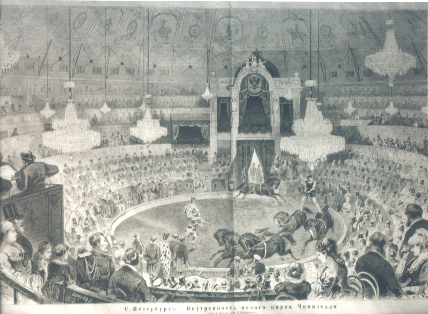 This lithograph of 1878 shows the interior of the Ciniselli Circus (now the Bolshoi Saint Petersburg State Circus), which opened on December 26, 1877. The decor of the auditorium of the circus was luxurious. The crimson velvet of the armchairs was complemented by gold, mirrors, and crystal chandeliers. The dome was covered with canvas showing floral ornaments and equestrian scenes. The boxes and stalls could seat 1,500 people, but the auditorium was designed to accommodate up to 5,000 people by using the spacious standing gallery. The features of the building allowed for various technical novelties used in performances. Every season of the Ciniselli Circus included a spectacular pantomime, a performance in which a beautiful extravaganza was arranged to show, for example, an impressive battle scene involving foot and mounted troops. The building was designed by Russian architect Vasily Kenel (1834–93). This lithograph was engraved by A. Zubchaninov, based on a drawing by S. Chamotte. Acrobatics; Arenas; Circus; Circus Ciniselli; Circus performers; Entertainers; Horsemanship; Spectators